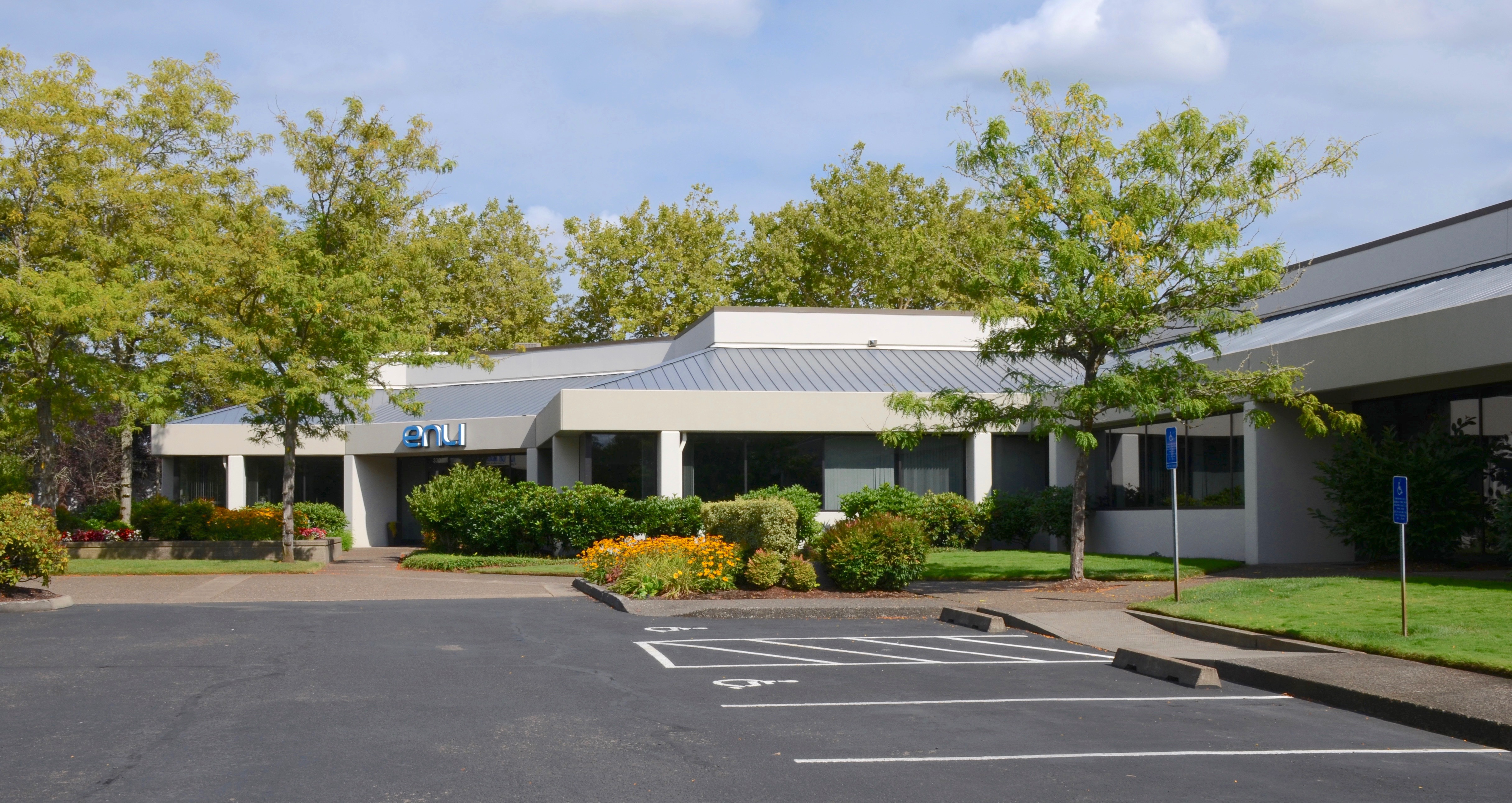 The corporate headquarters of Enli Health Intelligence, in Beaverton, Oregon.